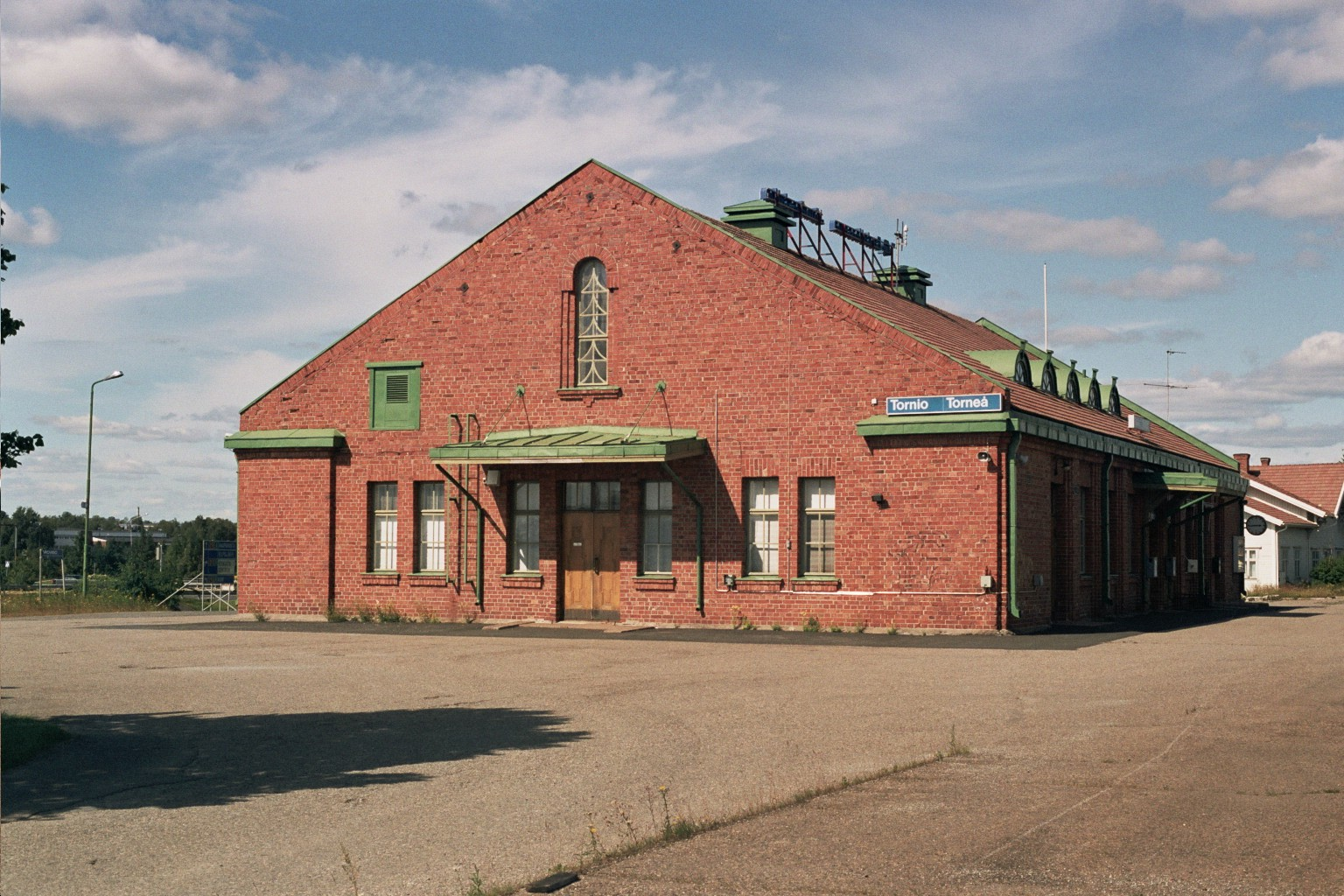 Tornio railway station in Finland.